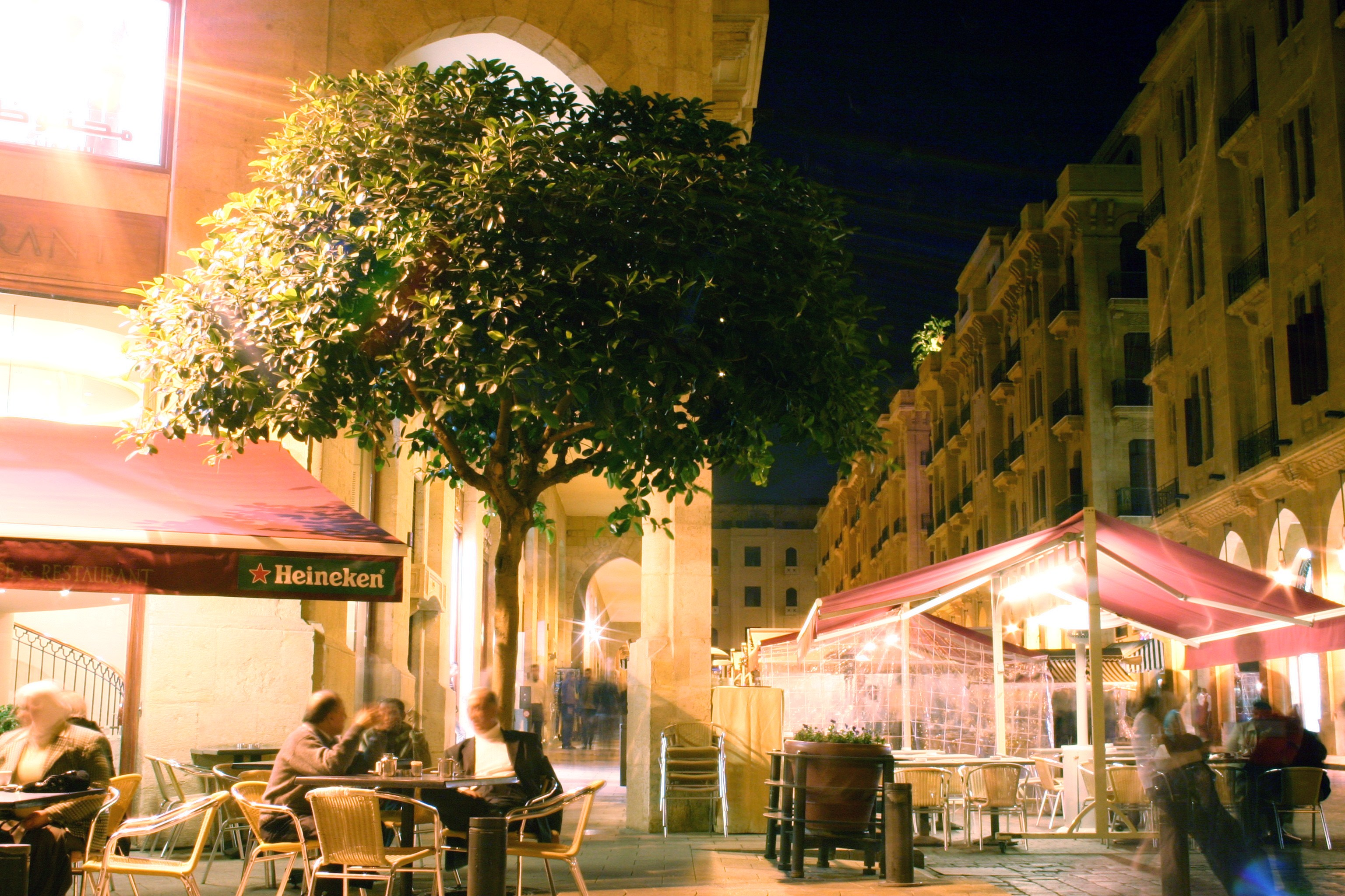 Beirut Downtown, rebuilt.